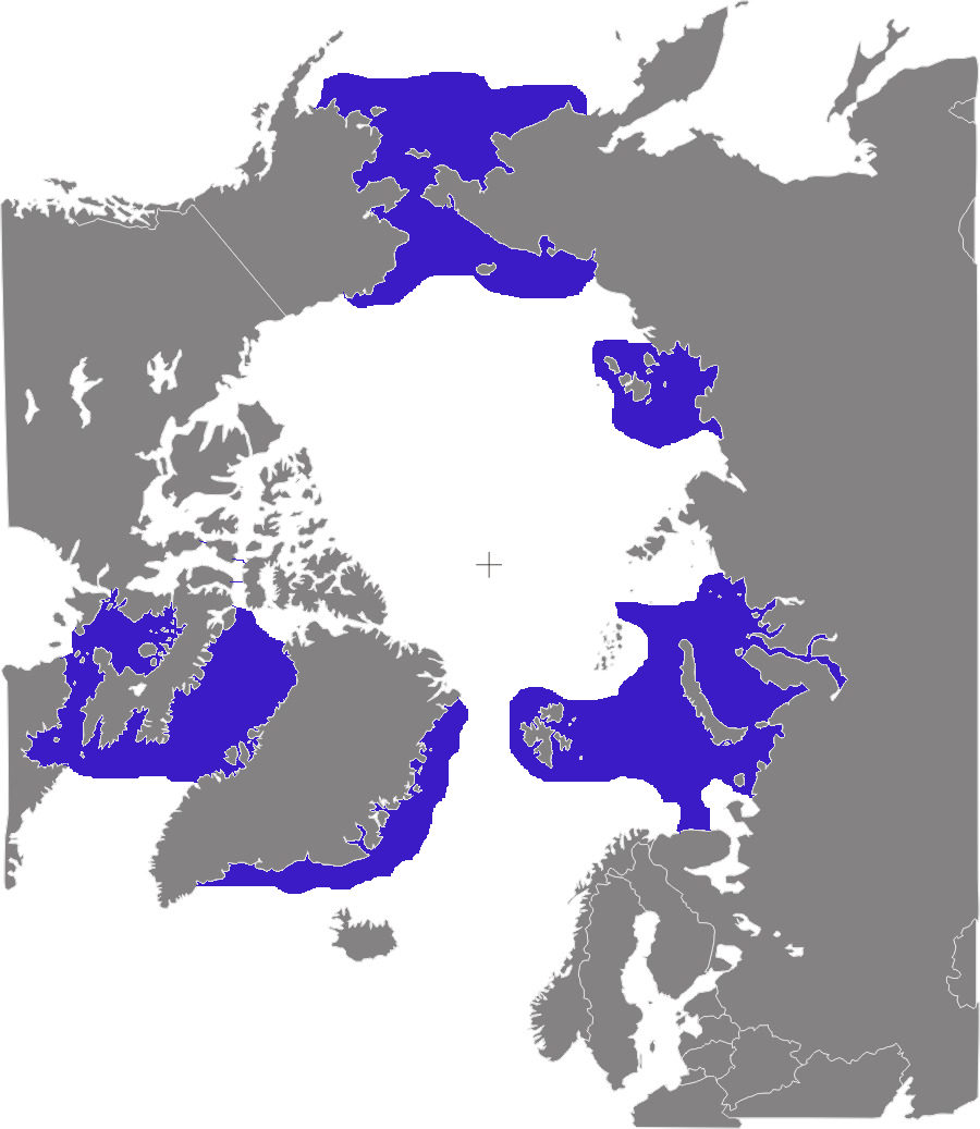 Distribution of the walrus